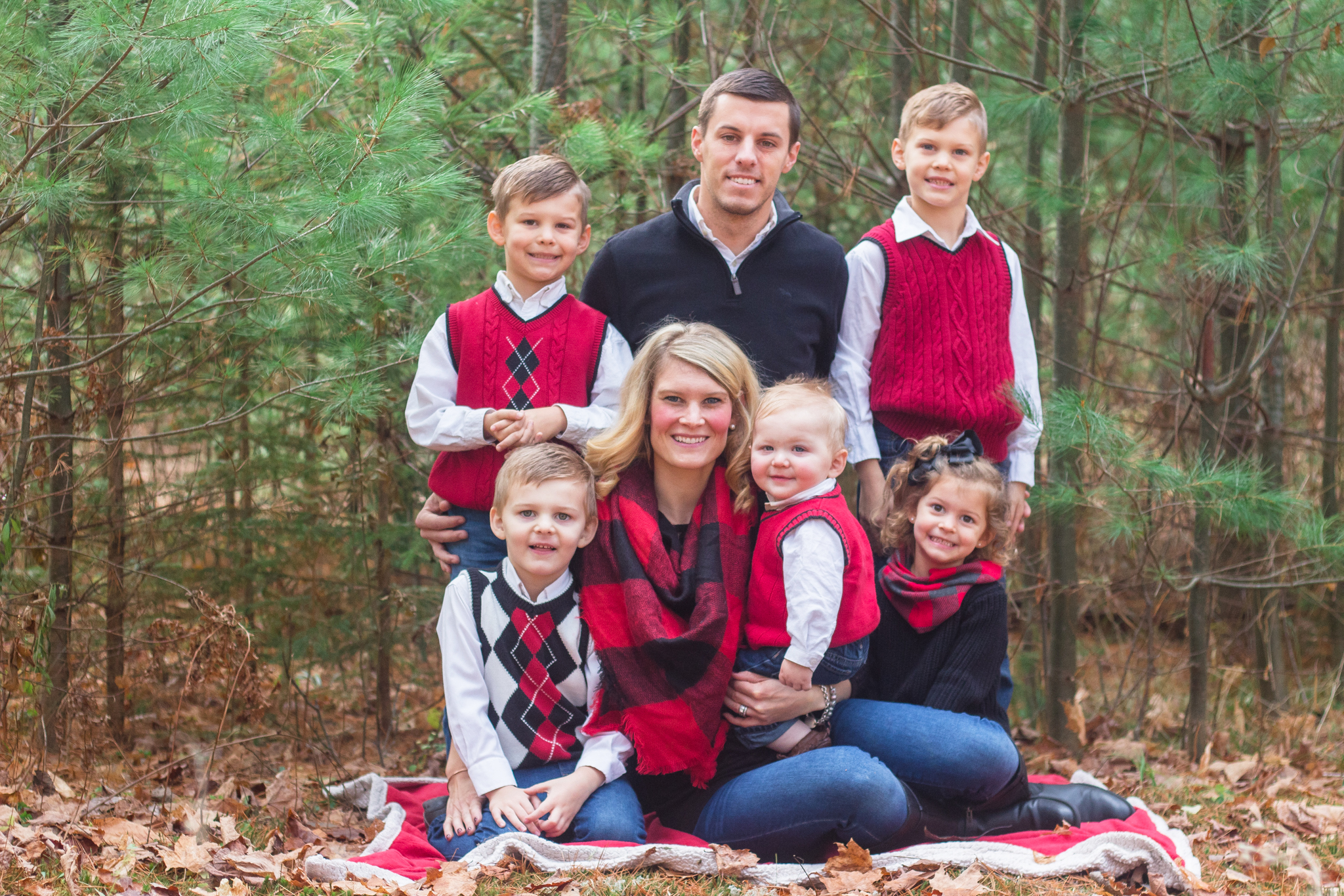 November 2017